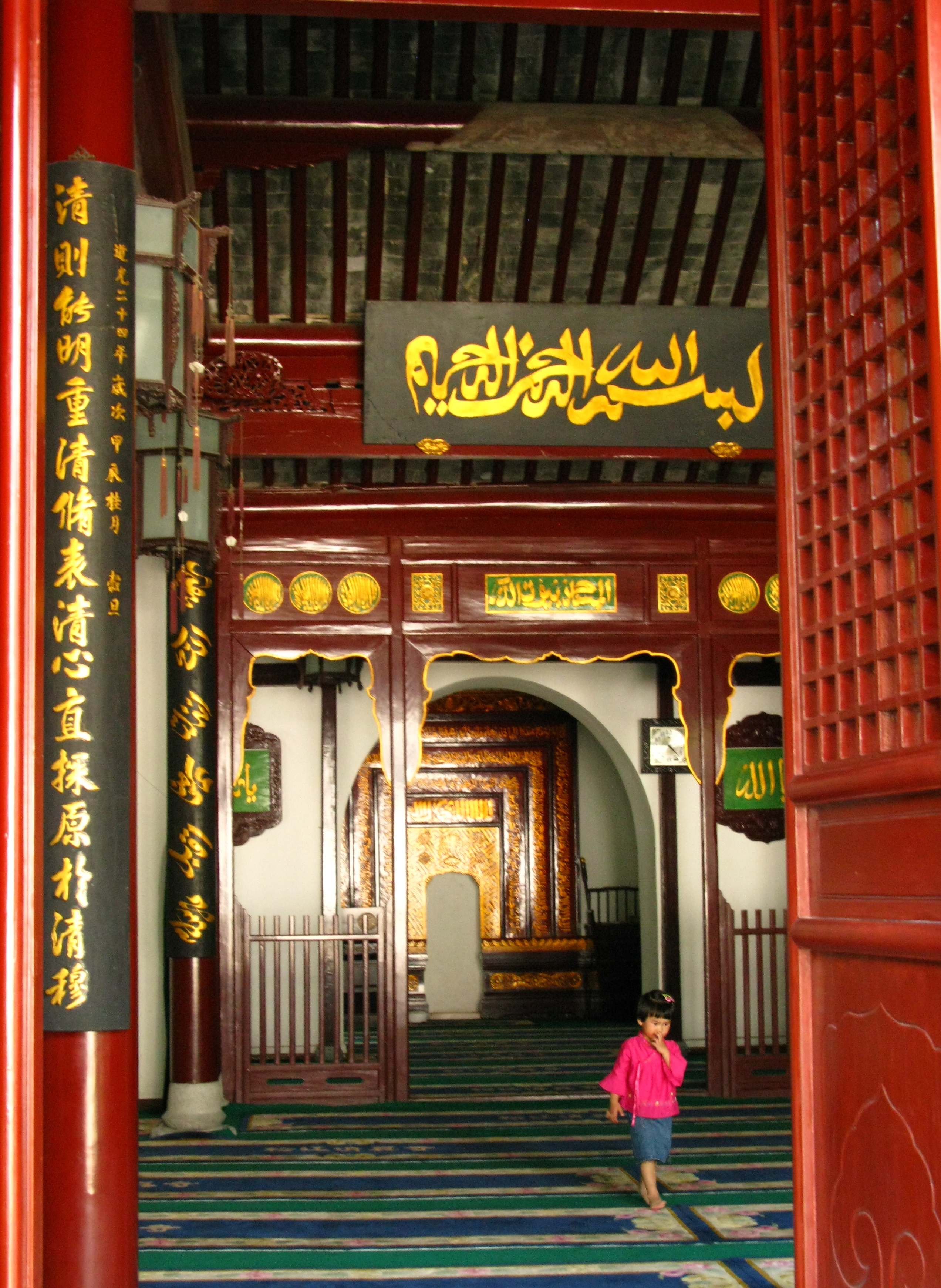 Song Jiang Mosque, one of the oldest Islamic buildings around Shanghai. The main prayer room. The little girl practiced what she saw the men do, but got tired and is now leaving.